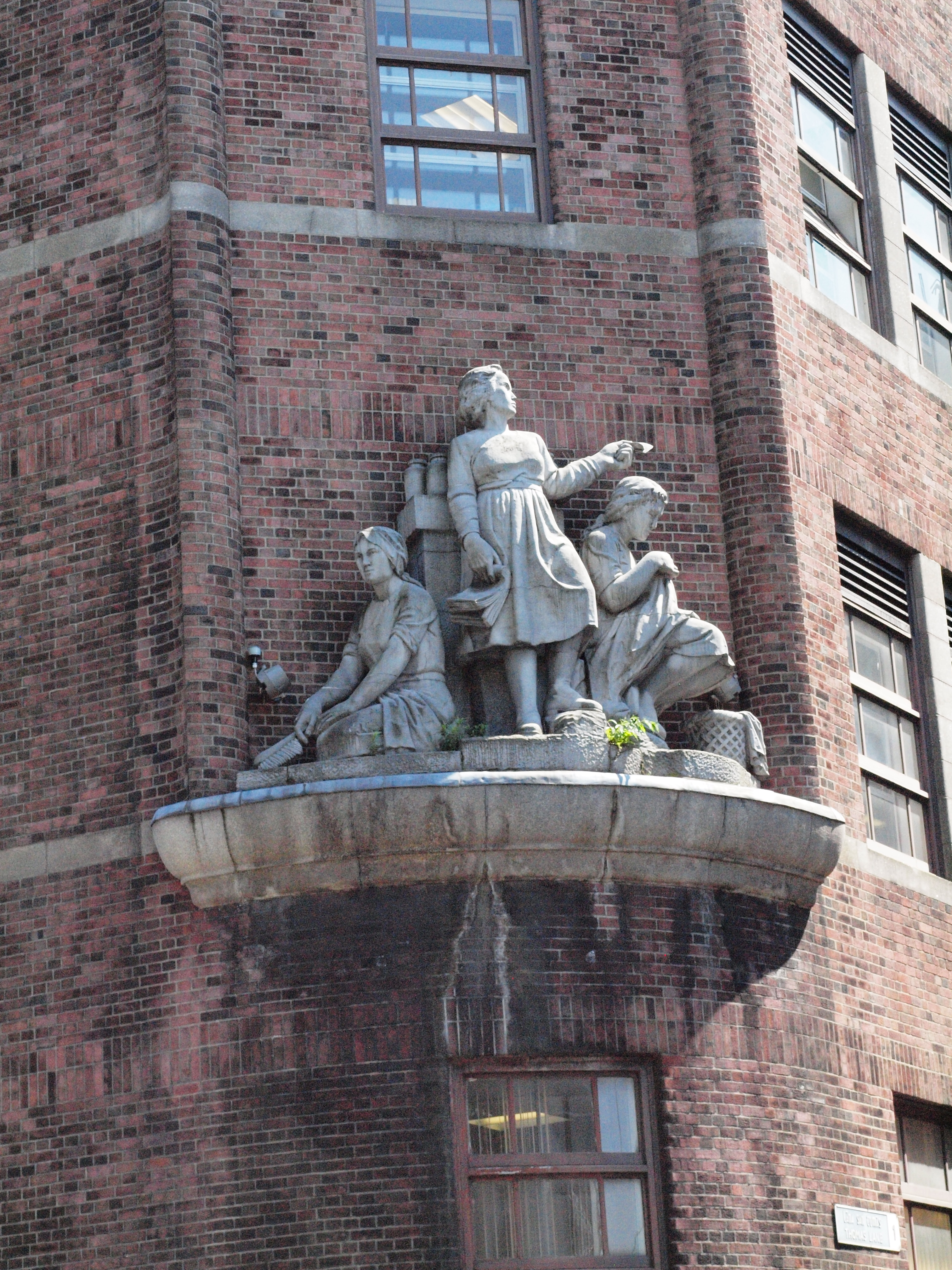 „The Three Graces“ by Gabriel Hayes. DIT School of Culinary Arts and Food Technology.